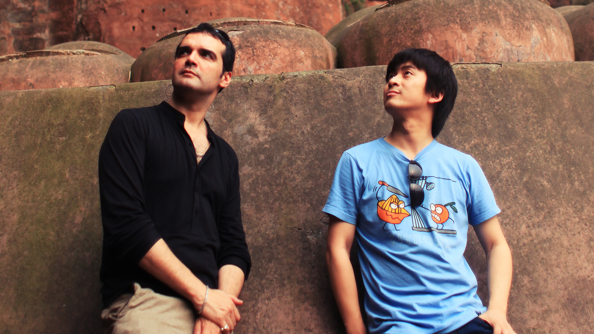 Roberto F. Canuto & Xu Xiaoxi, Directors of Desire Street, Ni Jing, Toto Forever & Mei Mei